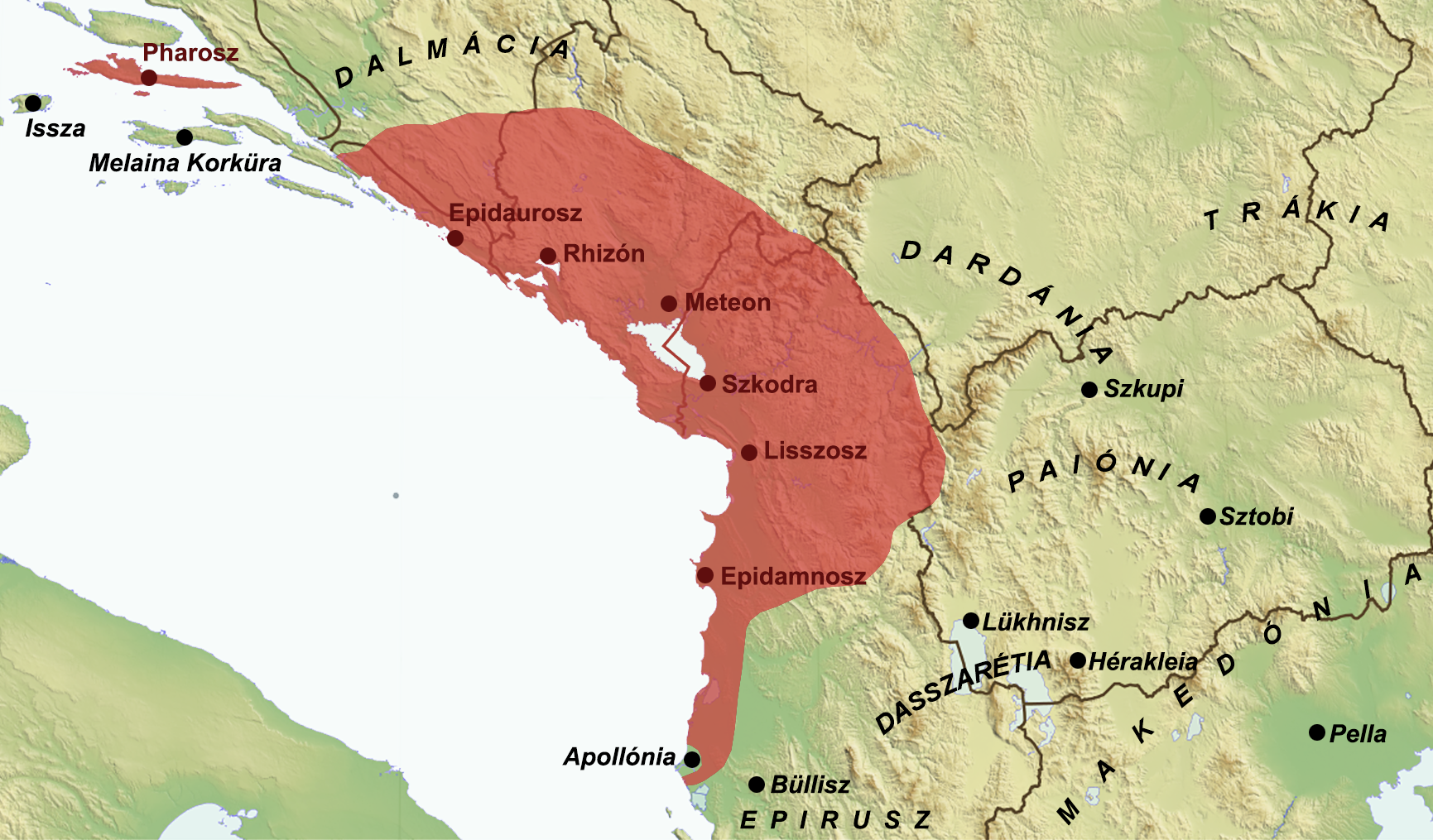 Approximative territory of the Illyrian Kingdom of Agron at the end of his reign, in 231 BC with Hungarian labels. Map based on multiple books and papers: - Wilkes 1992: John Wilkes: The Illyrians. Oxford; Cambridge: Blackwell. 1992. = The Peoples of Europe, ISBN 0631146717 - Marjeta Šašel Kos: The Roman conquest of Illyricum (Dalmatia and Pannonia) and the problem of the northeastern border of Italy. Studia Europaea Gnesnensia, VII. évf. (2013) 169–200. o. - Neritan Ceka: The Illyrians to the Albanians. Tirana: Migjeni. 2013. ISBN 9789928407467 plus derived from here: File:Map of the Kingdom of Agron of the Ardiaei (English).png